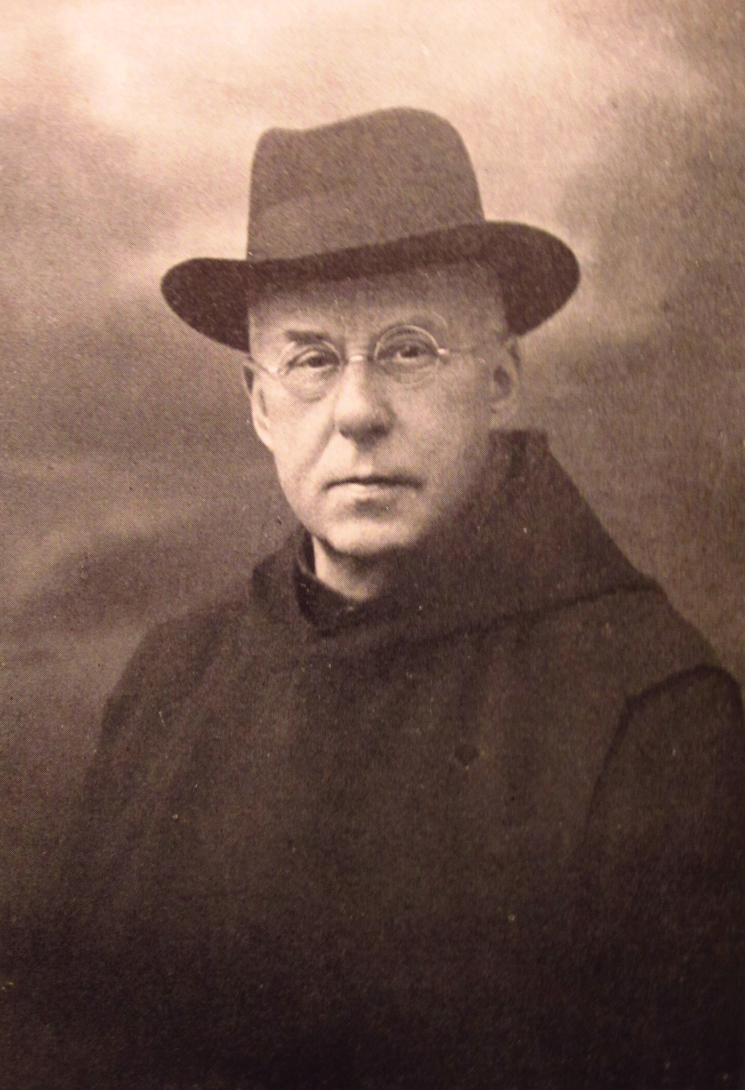 Dom Augustinus von Galen OSB (1870-1949)